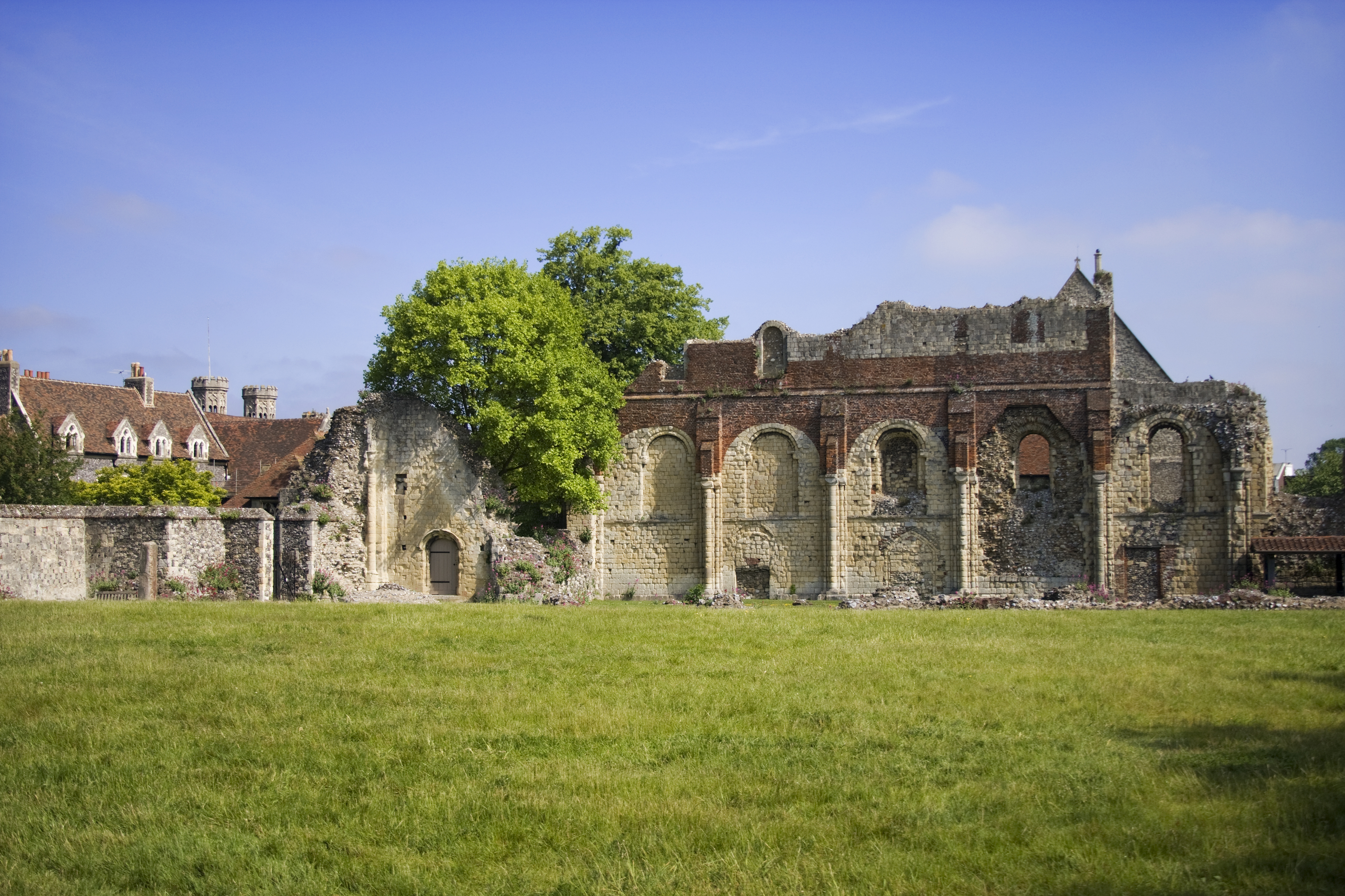 View of St Augustine's Abbey ruins. This is the nave of the Church of Sts Peter and Paul.